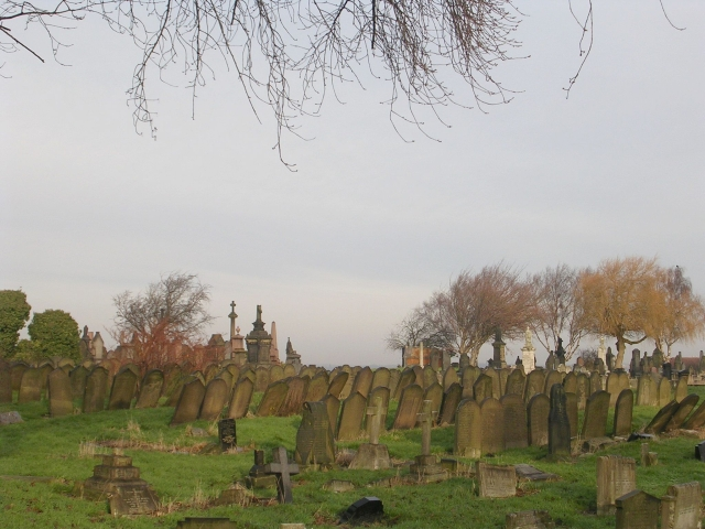 Holbeck Cemetery - Guinea Graves - Beeston Road. This cememtery is the setting for the poem V